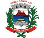 Brasão de Barra Bonita